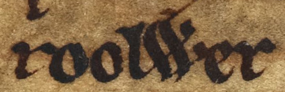 An excerpt from folio 50v of the Chronicle of Mann (Cotton MS Julius A VII). The excerpt reads in Latin "Roolwer". The man referred to is Roolwer, Bishop of the Isles.